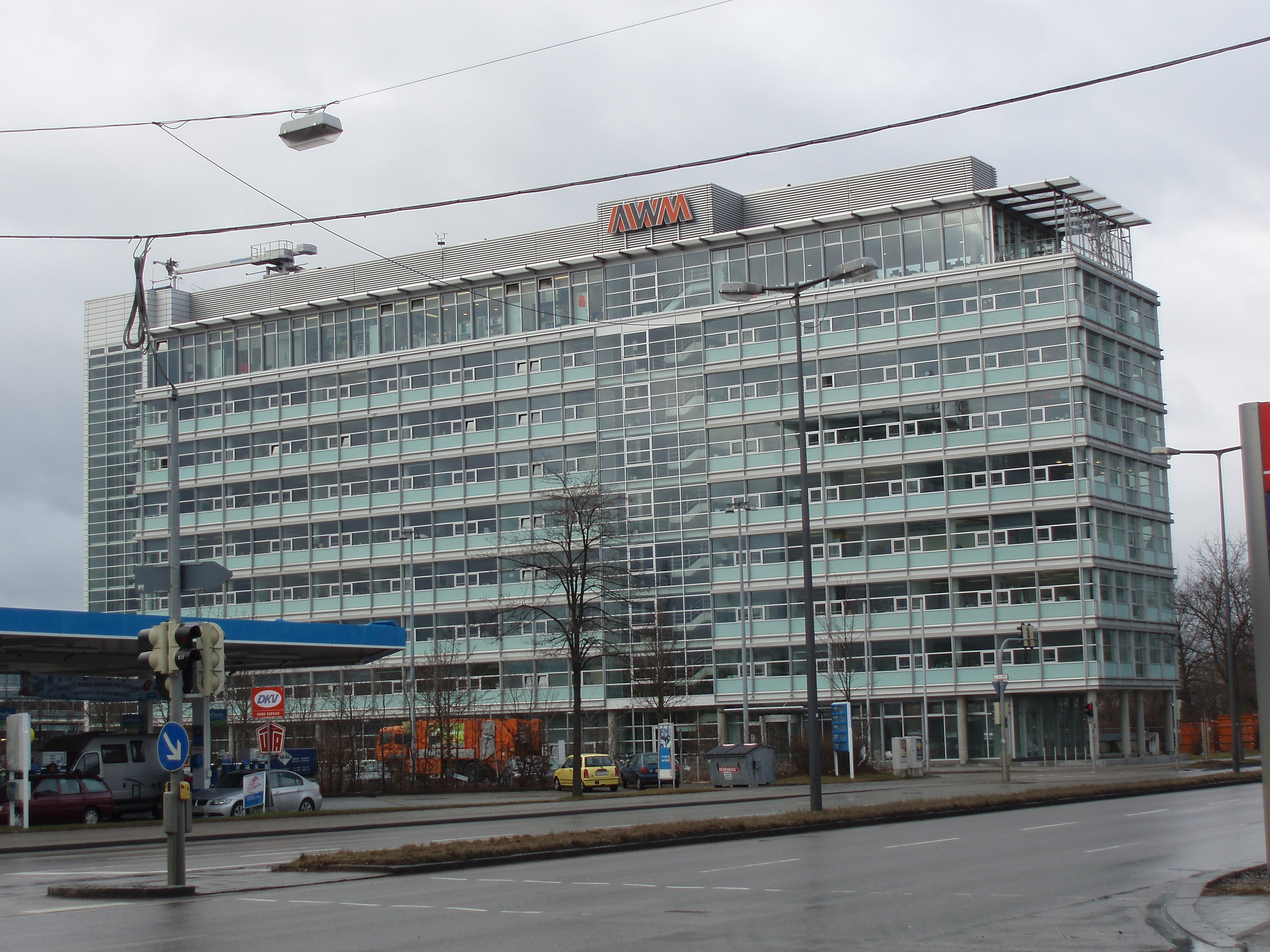 Central administration of the Munich municipal waste disposal company